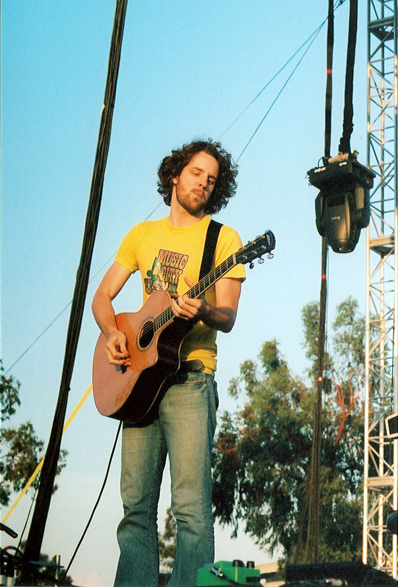 John Lefler of Dashboard Confessional.